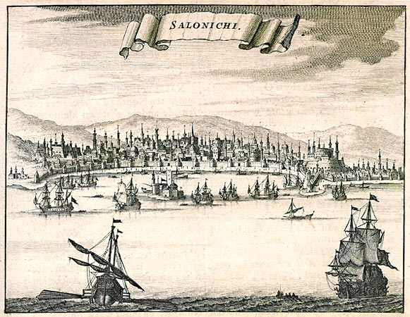 View of Thessaloniki in 1688